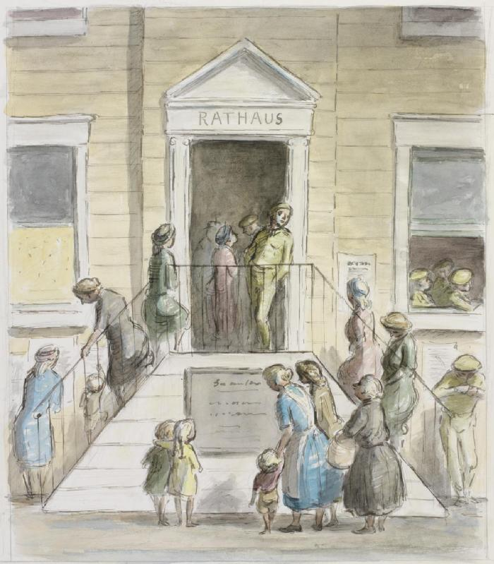 Troops at Rathaus image: civilian women and children climb and descend a double stone staircase at the front of a German town hall, while another group read a notice pasted on the front of it. There is a British soldier lounging in the doorway and another leaning forward onto the rail at the bottom of the right hand branch of the stairway. Inside the door a woman can be seen talking to another soldier and through the window another group of uniformed figures is visible.